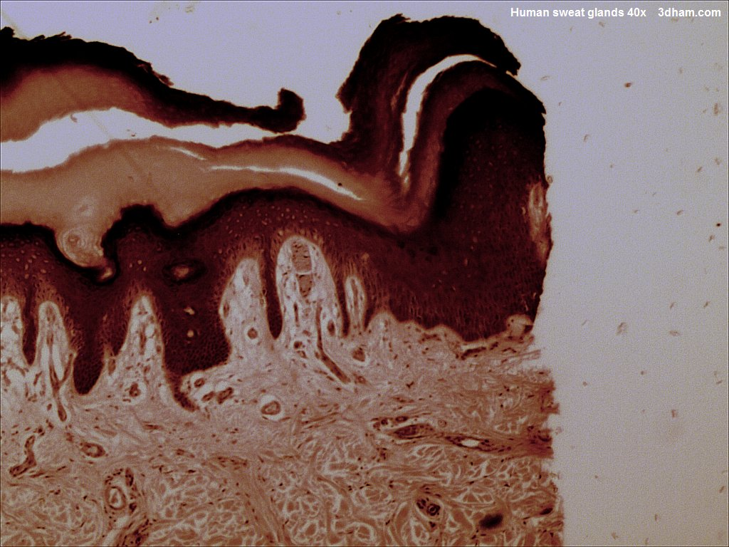 Human sweat glands Magnified 40 times